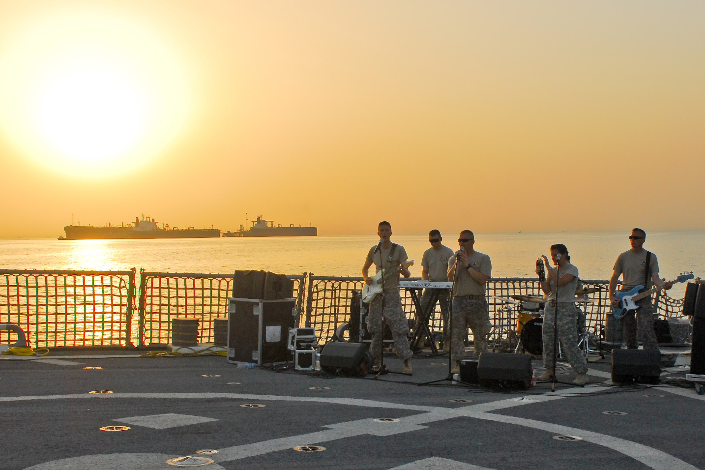 34th ID Band, MPT-D performs on the deck of the USS Decatur while the ship patrols around the Al Basra Oil Terminal in the Persian Gulf.